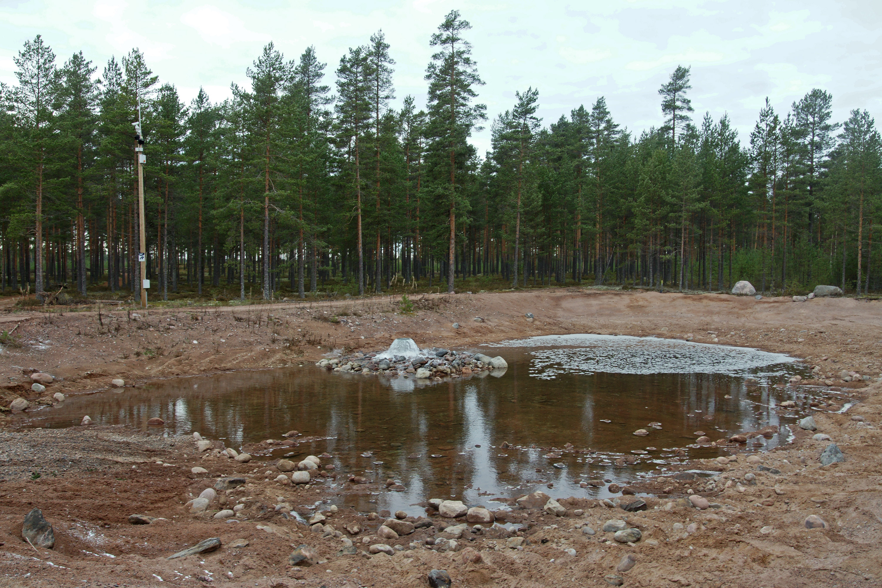 Virttaankangas